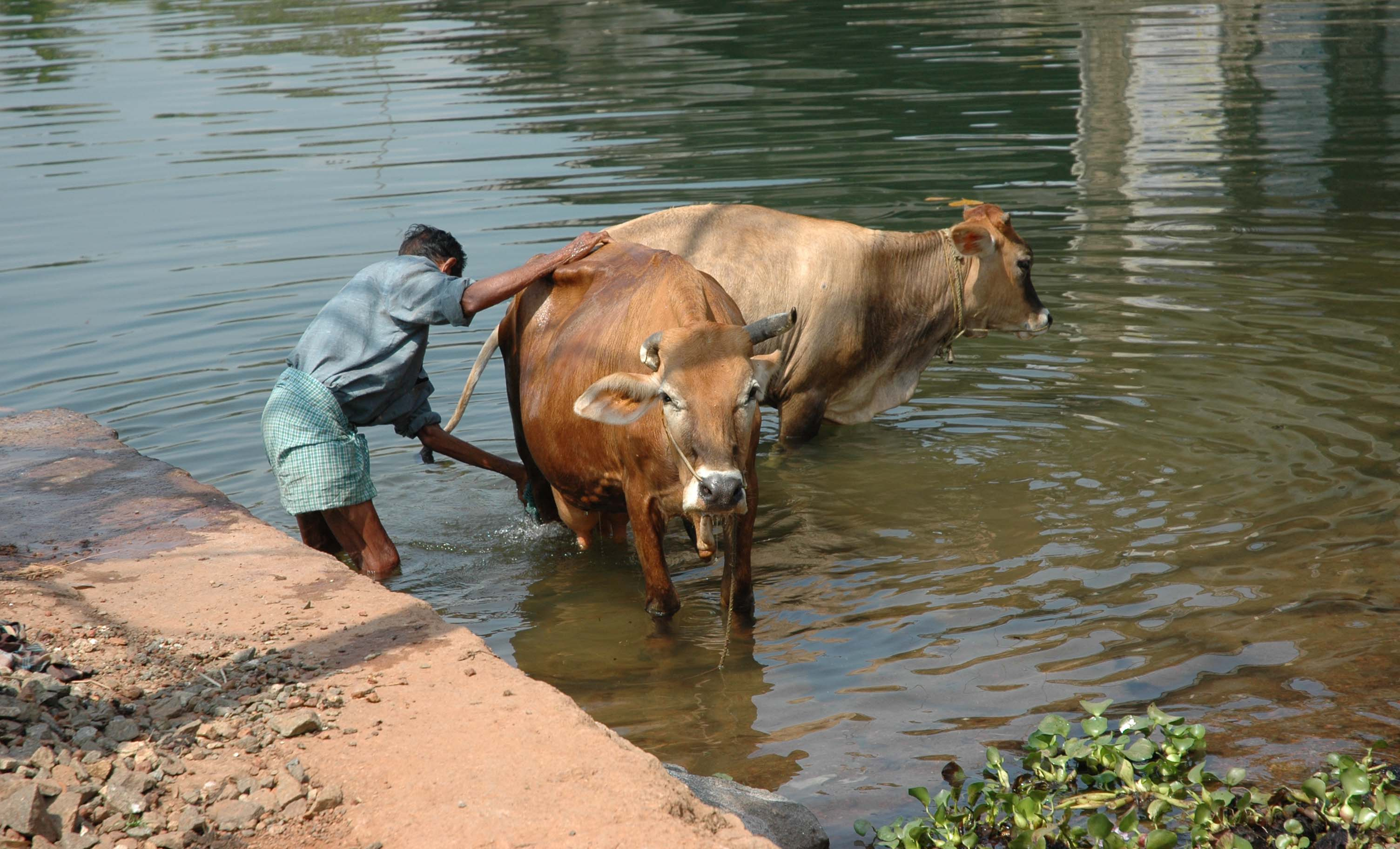 washing cows near Alleppey, Kerala, India